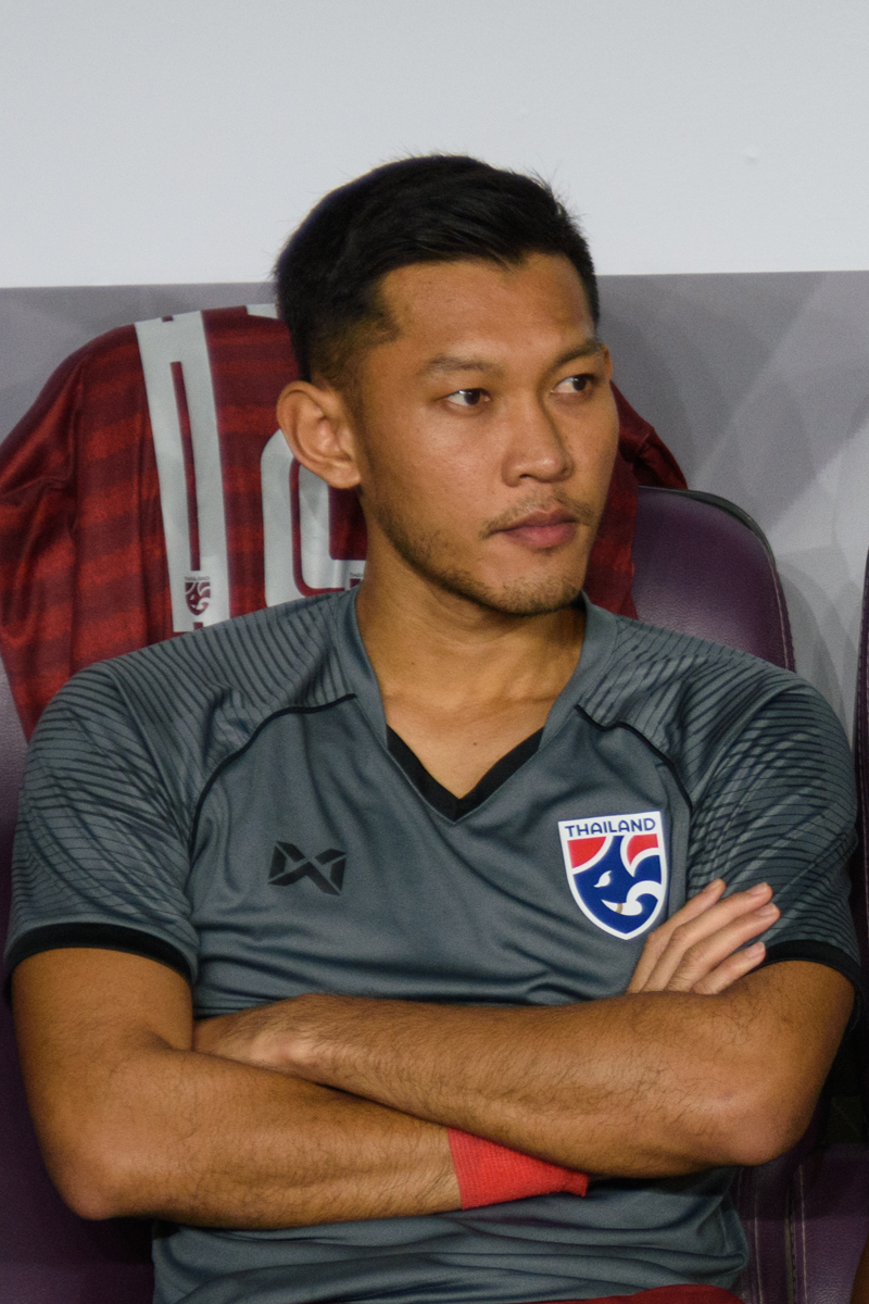 Chananan Pombuppha at the Asian Cup 2019